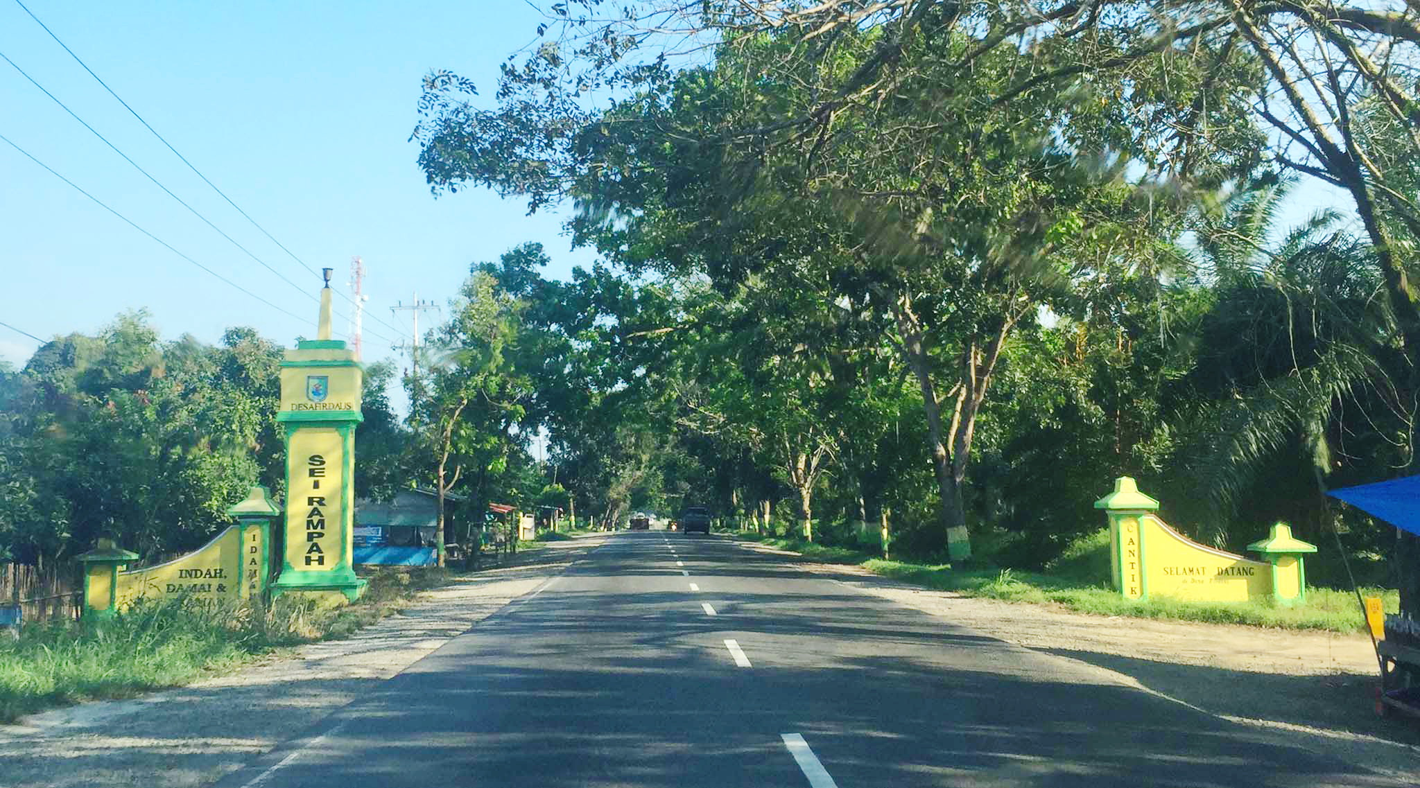 Welcome gate to Firdaus, Sei Rampah, Serdang Bedagai